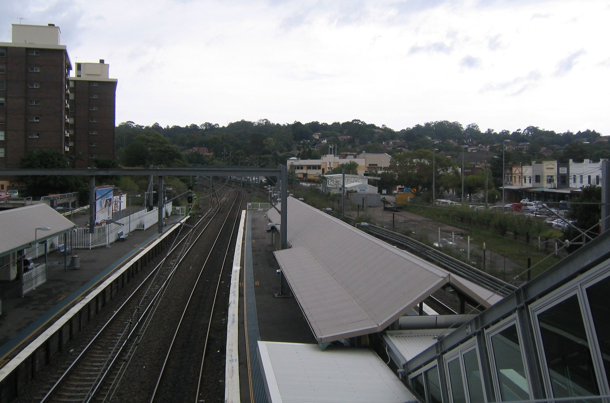 This is a picture of West Ryde railway station in Sydney, Australia. It was taken from the footbridge looking north (away from the city). It shows the diverging outbound tracks, old goods shed and old goods yard area Category:Images of Sydney